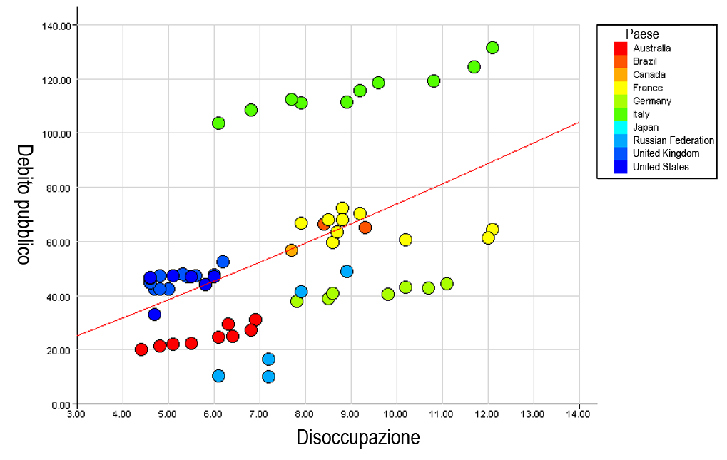 A scatterplot reperesenting Central government debt in relation with Unemployment, total (% of total labor force). The countries data is from 1998-2007. Data collected from . Image realized with